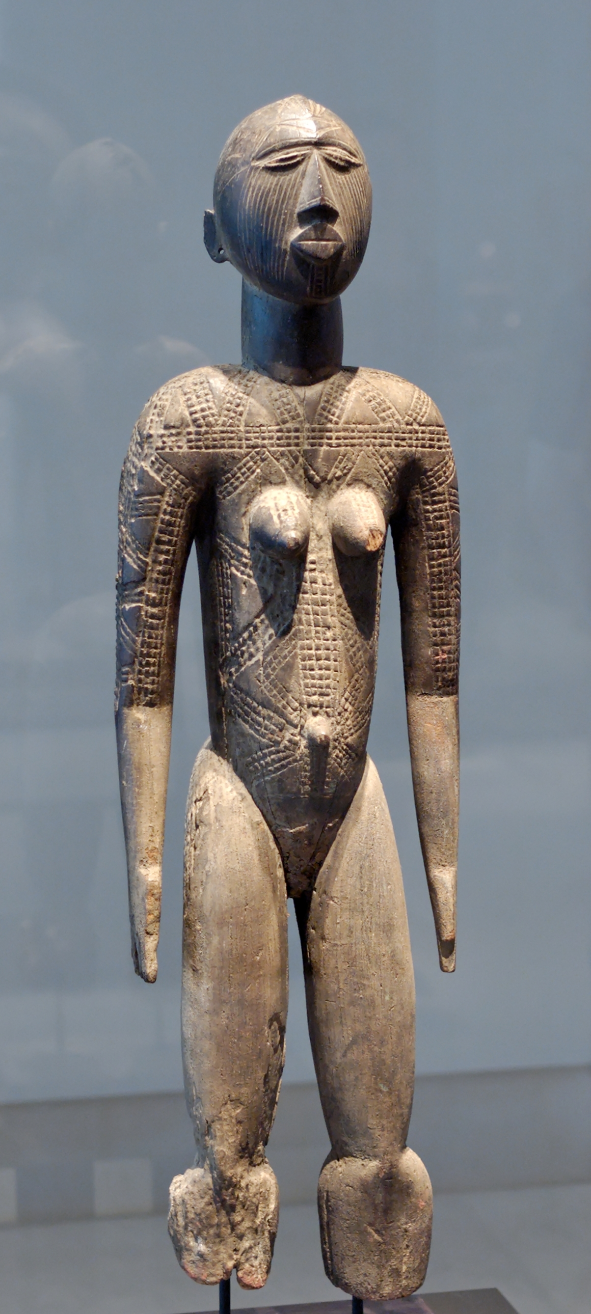 Female figure with scarified marks on the face, Nuna sculpture.